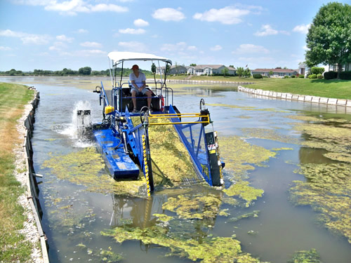 An Aquarius Algae Harvester quickly removes floating algae from the waters surface.